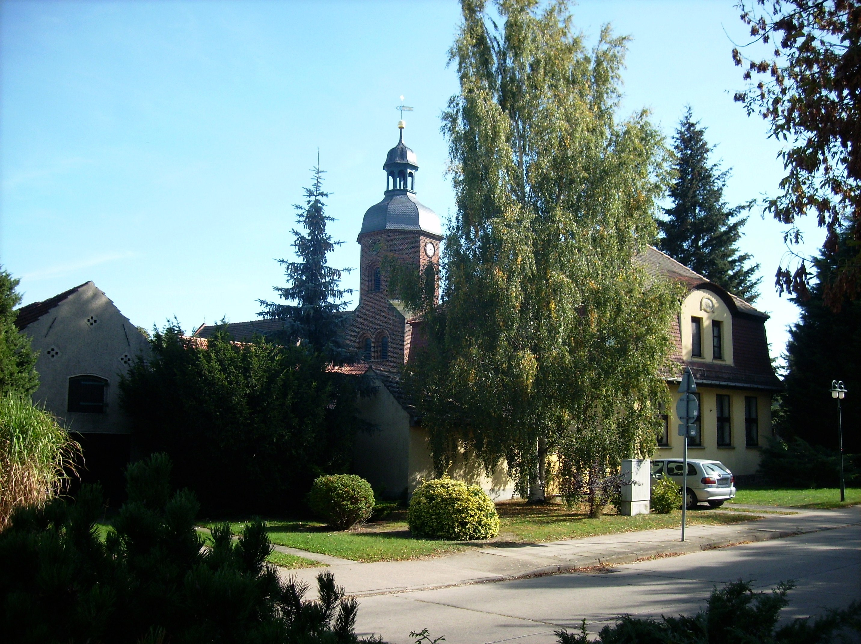 Church of the village of Gräfendorf (Herzberg/Elster,Elbe-Elster district, Brandenburg) from the north-west